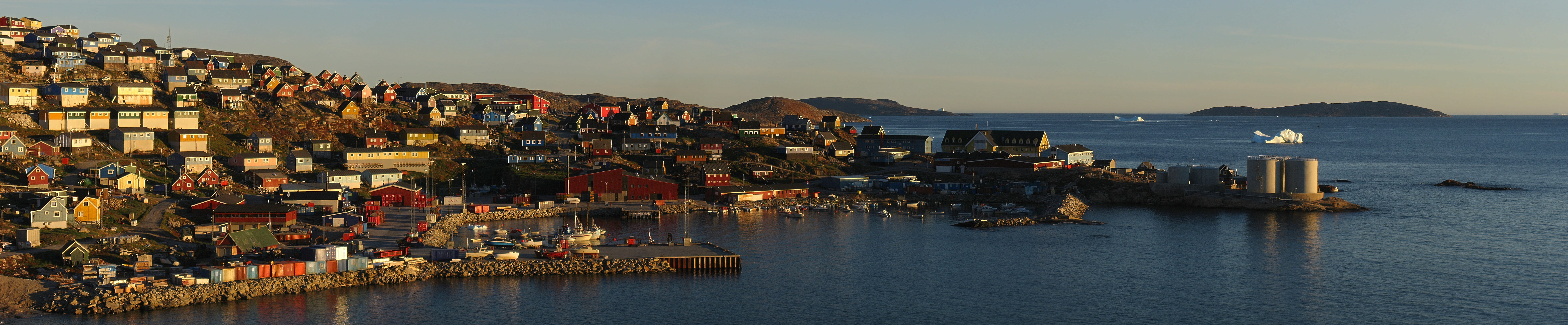 Evening panorama of the north-western part of the town Upernavik in Greenland. The viewpoint is a cliff near the soccer field with a south-eastern heading. The image has been generated using Hugin based on 21 individual photos taken at max zoom in two rows. 5. Vignetting has been minimized using a best fit polynomial in Hugin. The output image from Hugin has been rectangularly cropped to a pixel height of +1900 followed by a slight increase of lightness and saturation. Hereafter resampled to a pixel height of 1500 using a cubic spline interpolation. Finally, the image was Smart Sharpened using GIMP with a pixel radius of 1.0 and an amount of 1.0.